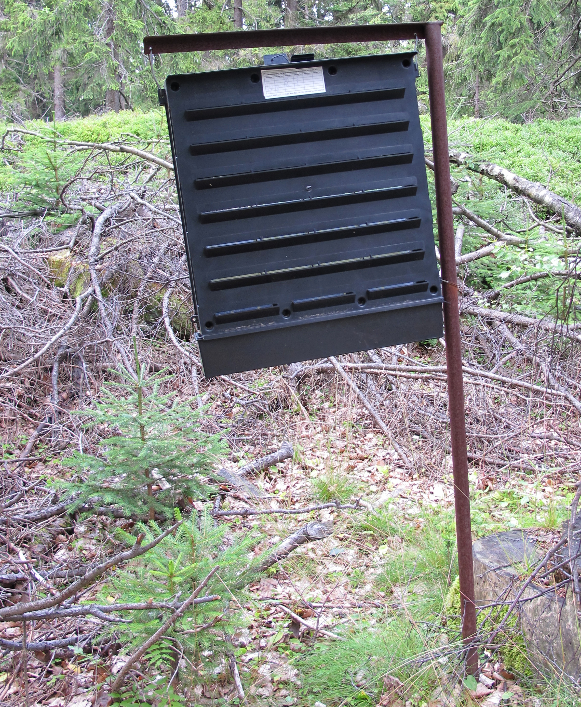 Trap for bark beetle (Ips typographus), near hill Třemšín in Příbram District in Czech Republic